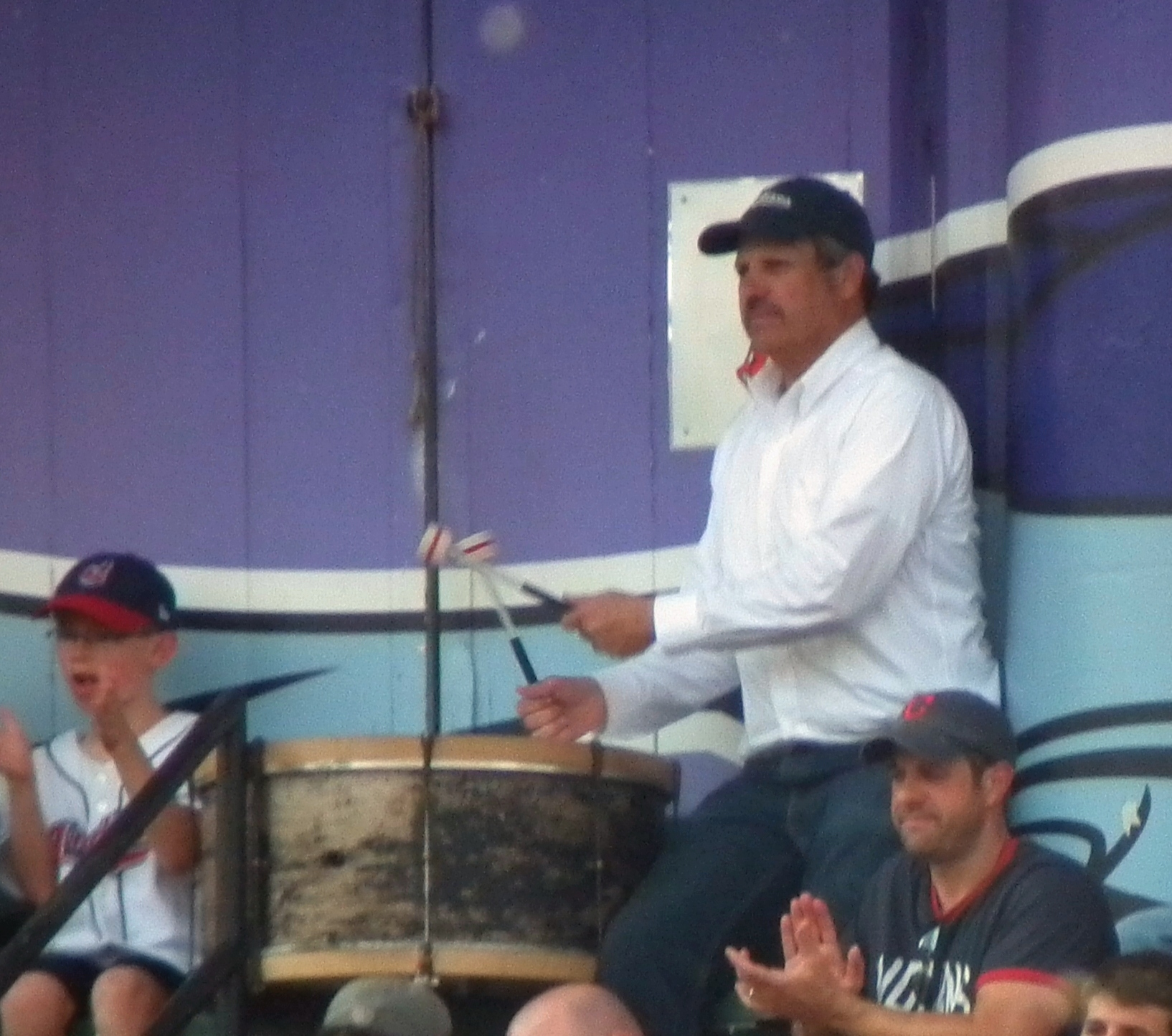 John Adams, known for being the drummer of the Cleveland Indians.